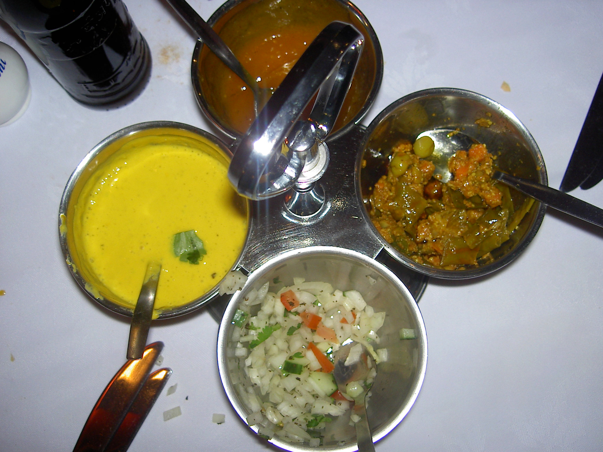 Various chutney from Indian cuisine